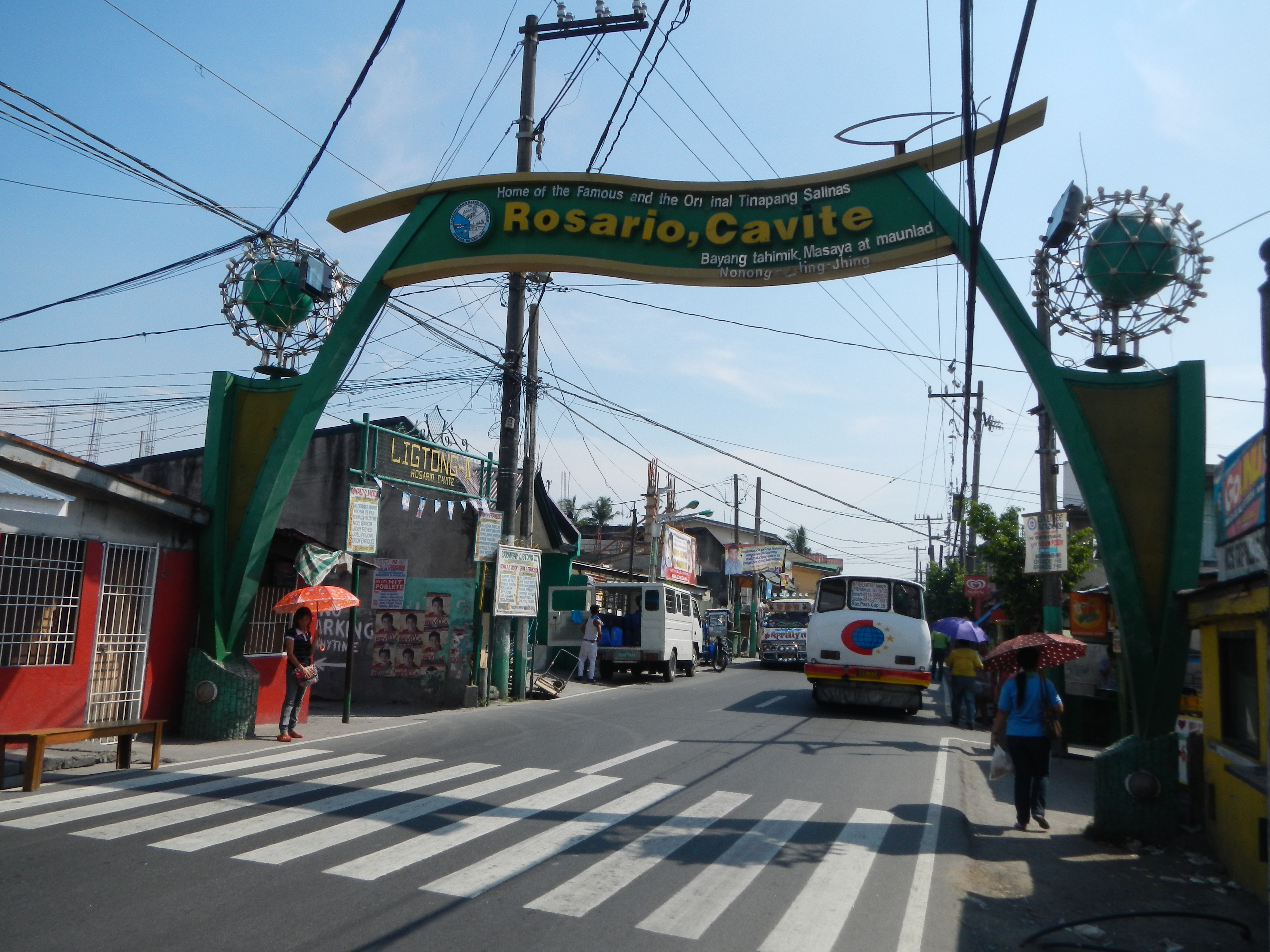 Welcome Arch of Rosario, Cavite[1]Coordinates: 14°24'48"N 120°51'44"E [2] [3] Coordinates: 14°24'32"N 120°51'25"E The mall complex is located along General Trias Drive in Rosario, Cavite. [4] Coordinates: 14°24'58"N 120°51'20"E [5] ---------[N.B. Photography of Rosario, Cavite[6]: 30% cloudy and 70% sunny weather using my Nikon AW 100 waterproof shockproof camera. From Bulacan at 9:35 a.m., I took photo of the Baliuag Transit Original station, and at 11:38 a.m., the 5th Avenue LRT Station[7]; then I arrived at Rosario, Cavite and captured Noveleta Battle bridge at 2:08 pm, and then the Salinas Town or Rosario, Cavite at 2:33 pm and finished photography at 7:04 pm, and arrived at Bulacan at 11:30 pm after 4+ hours of travel by bus, and started uploading via slow internet at 11:40 pm - I hereby certify that these raw, original and unedited photos are exclusive for Commons and Wikipedia never uploaded in any Internet or any site, and for the public domain without any condition.]